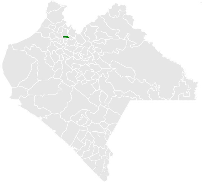 Map of the Municipalty of Ixhuatán in the State of Chiapas, México.